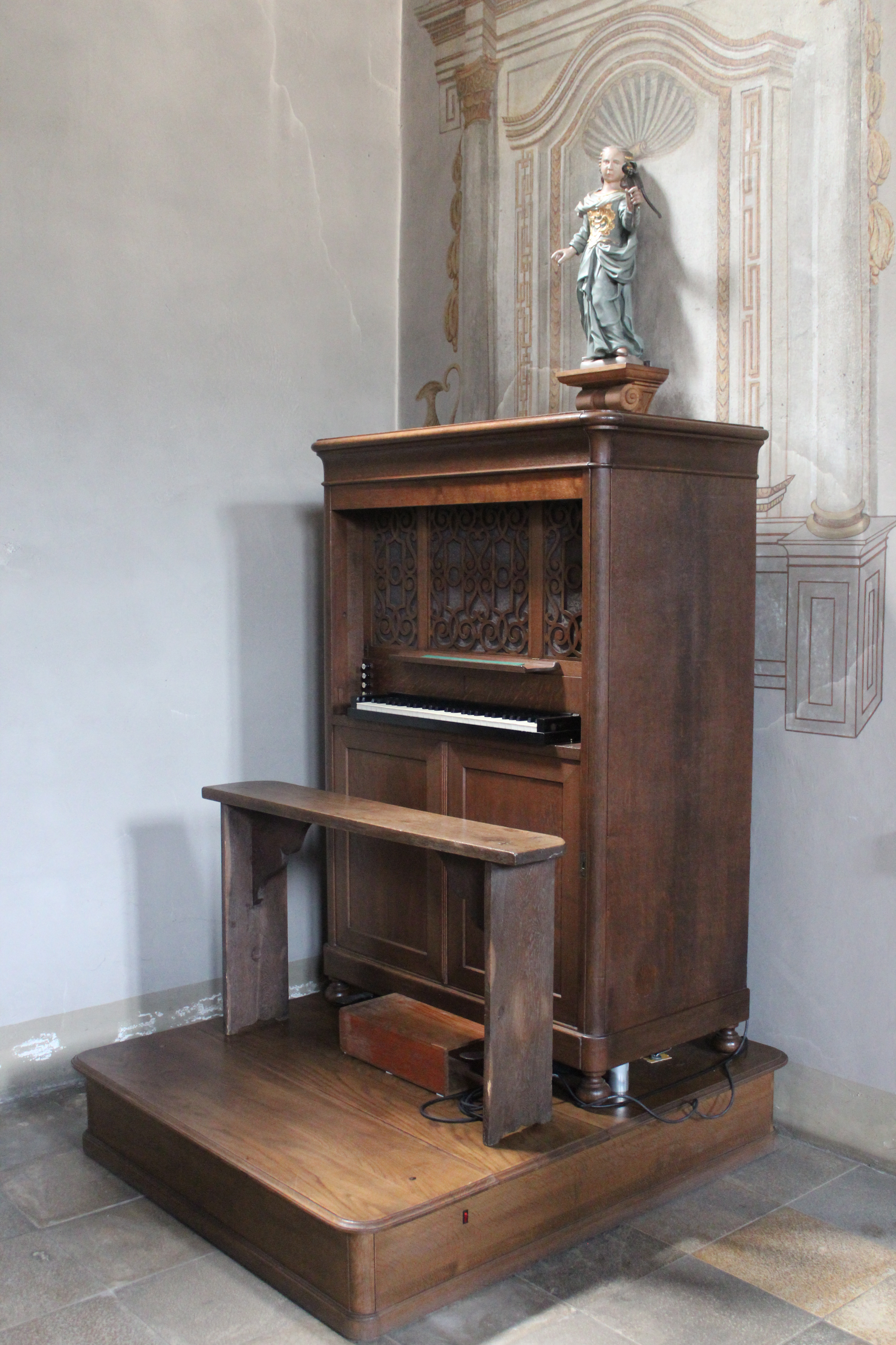 Chapelle Notre-Dame des Douleurs in Echternach, Luxembourg: Pipe organ ("Oranier Uergel"). The organ was donated in 1845 by King-Grand Duke William II. Monument national (cultural heritage monument)